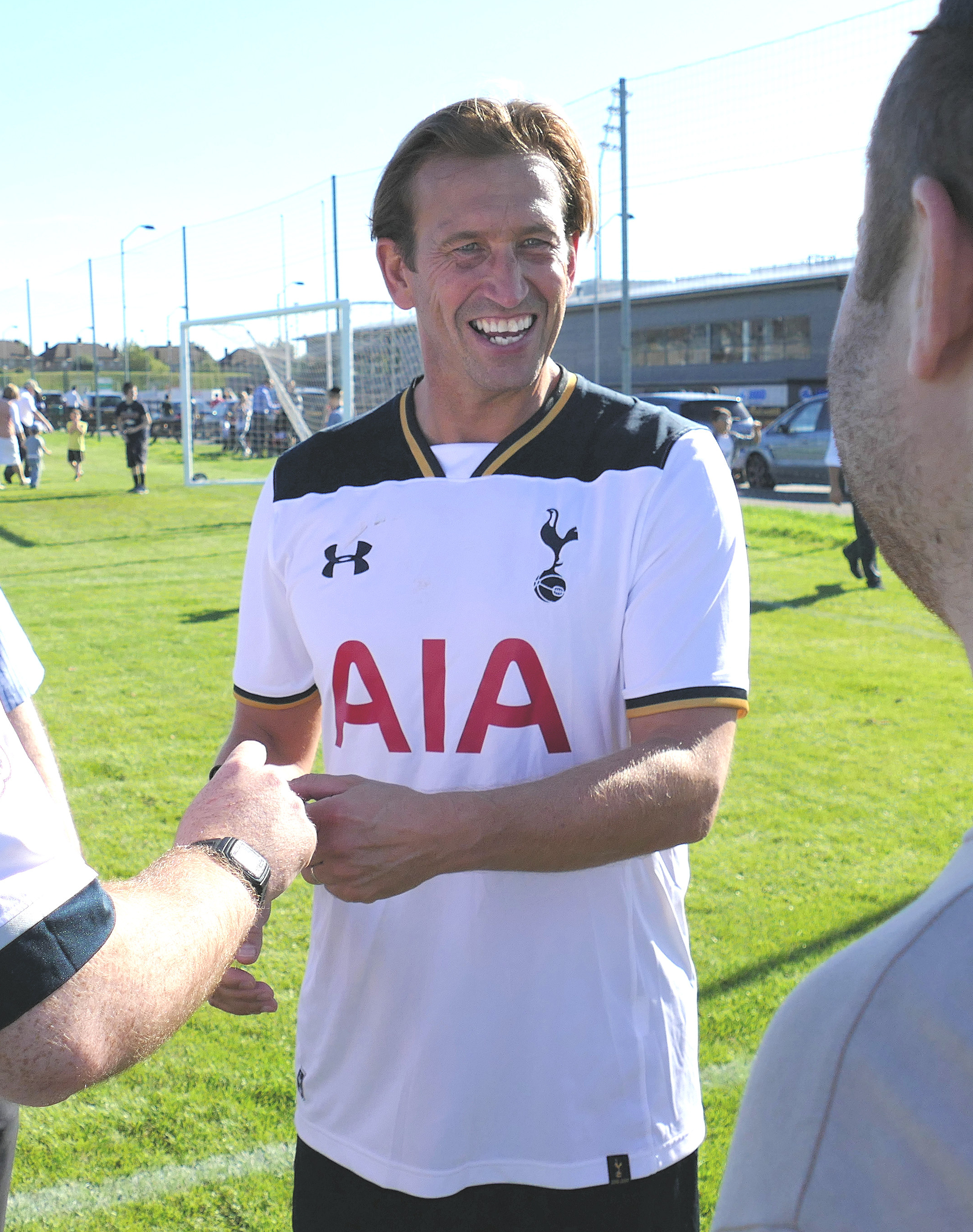 Justin Edinburgh plating in a charity match in September 2016